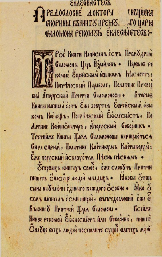 "Ecclesiastes" of Francysk Skaryna 1518